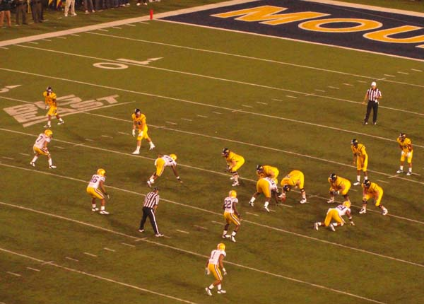 The West Virginia Mountaineers line up of offense against the LSU Tigers in the second quarter at Mountaineer Field in Morgantown, West Virginia, USA.